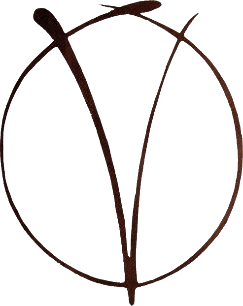 The V symbol from V for Vendetta.